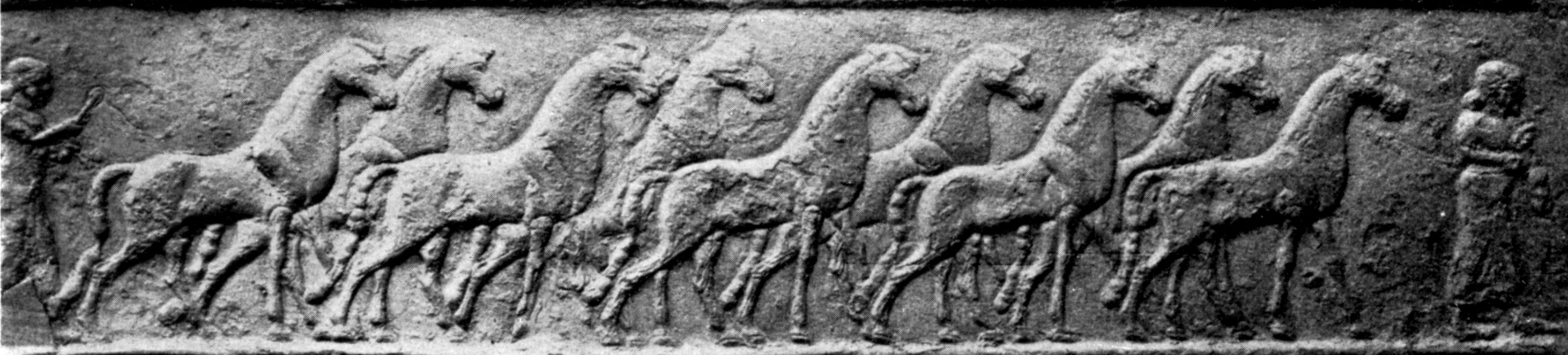 Captured horses after a battle between Assyrian and Urartian soldiers.